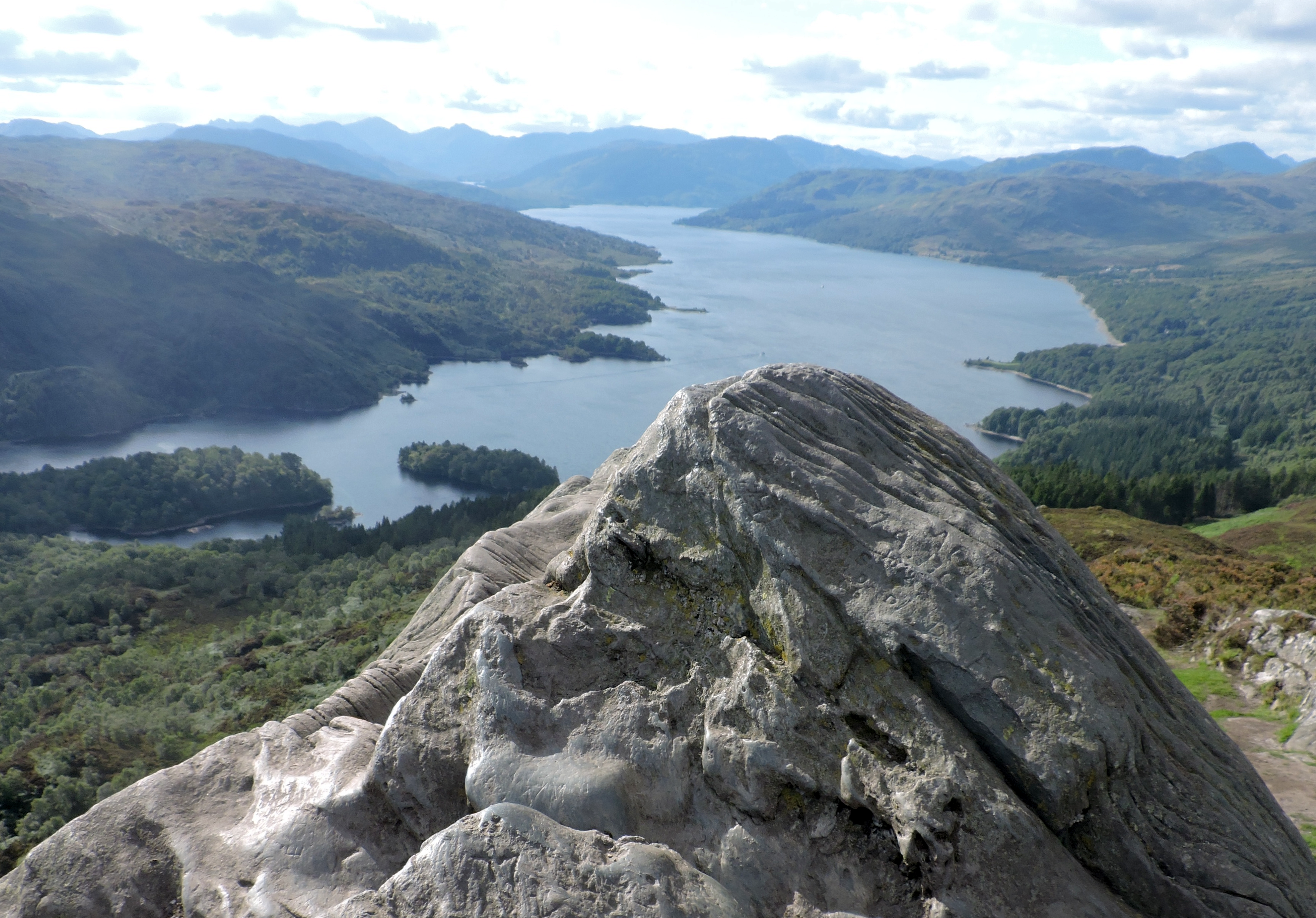 Ben A'an hilltop and Loch Katrine